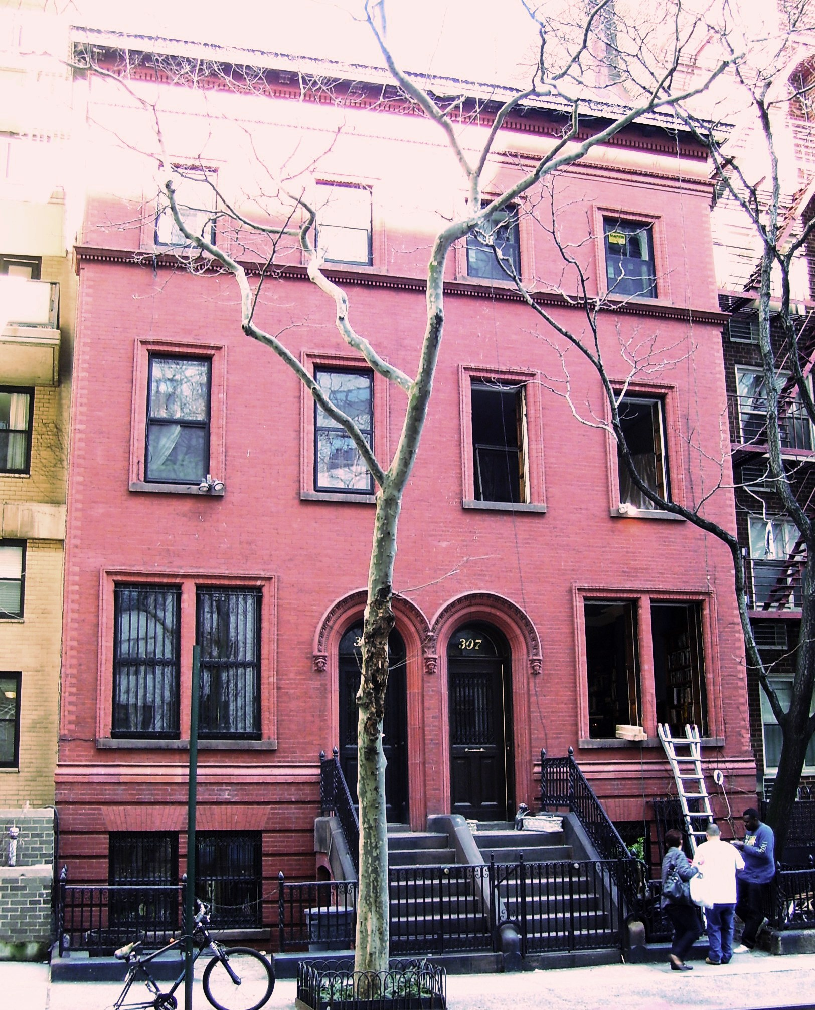 305-307 East 87th Street between First and Second Avenues in the Yorkville neighborhood of Manhattan, New York City, were built c.1899. (Source: NYC GIS map)